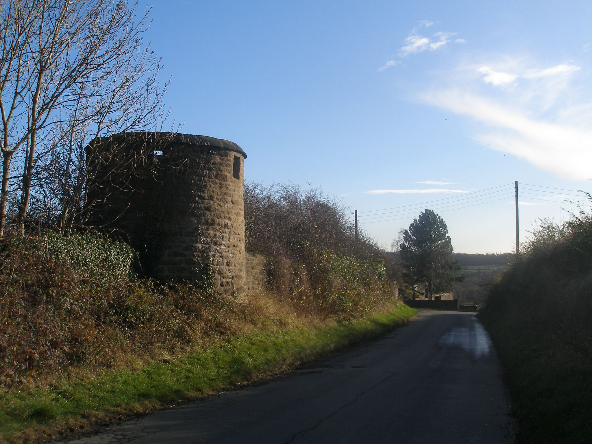 Tower at Hound Hill